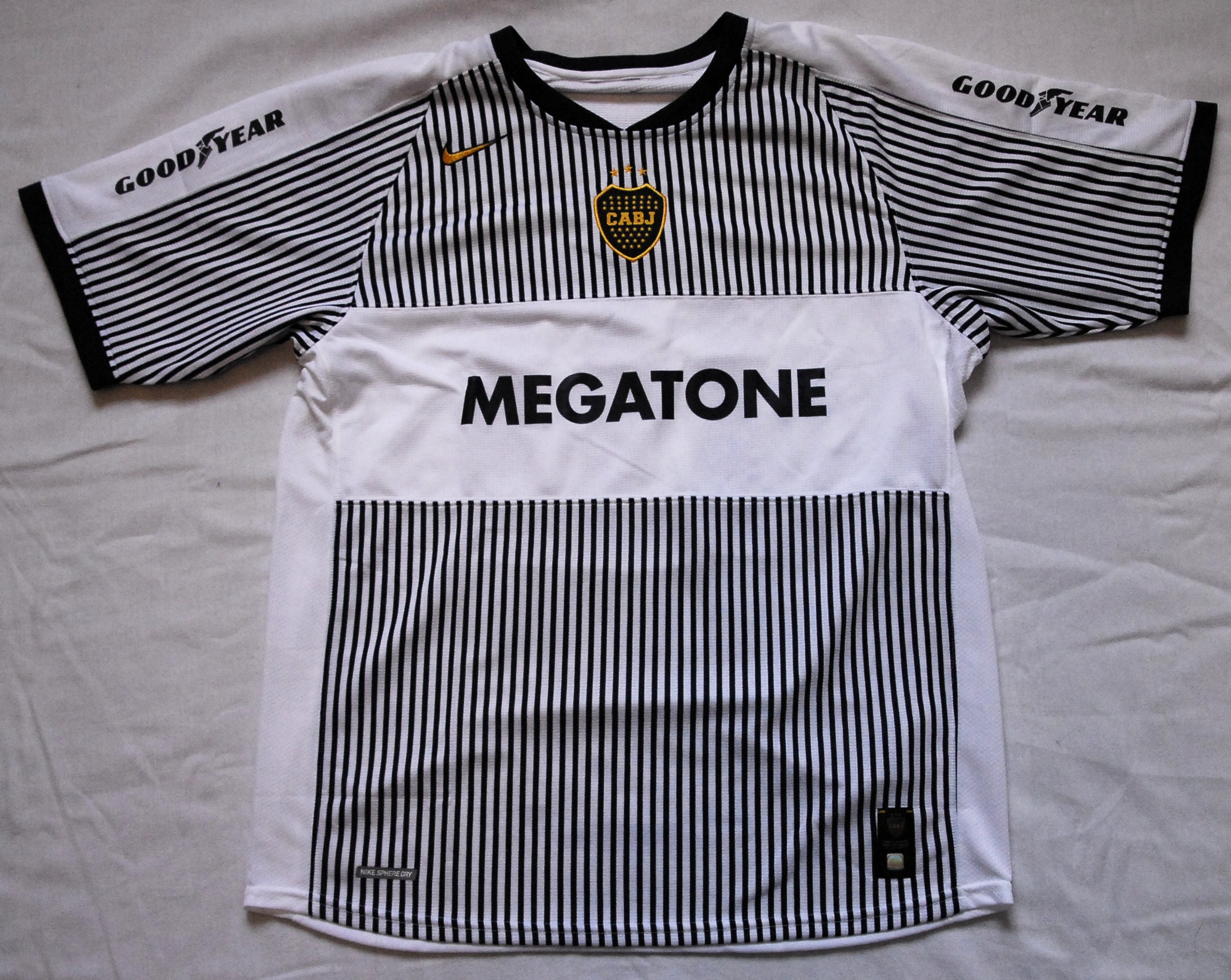 Boca Juniors 2006-2007 Alternate Jersey